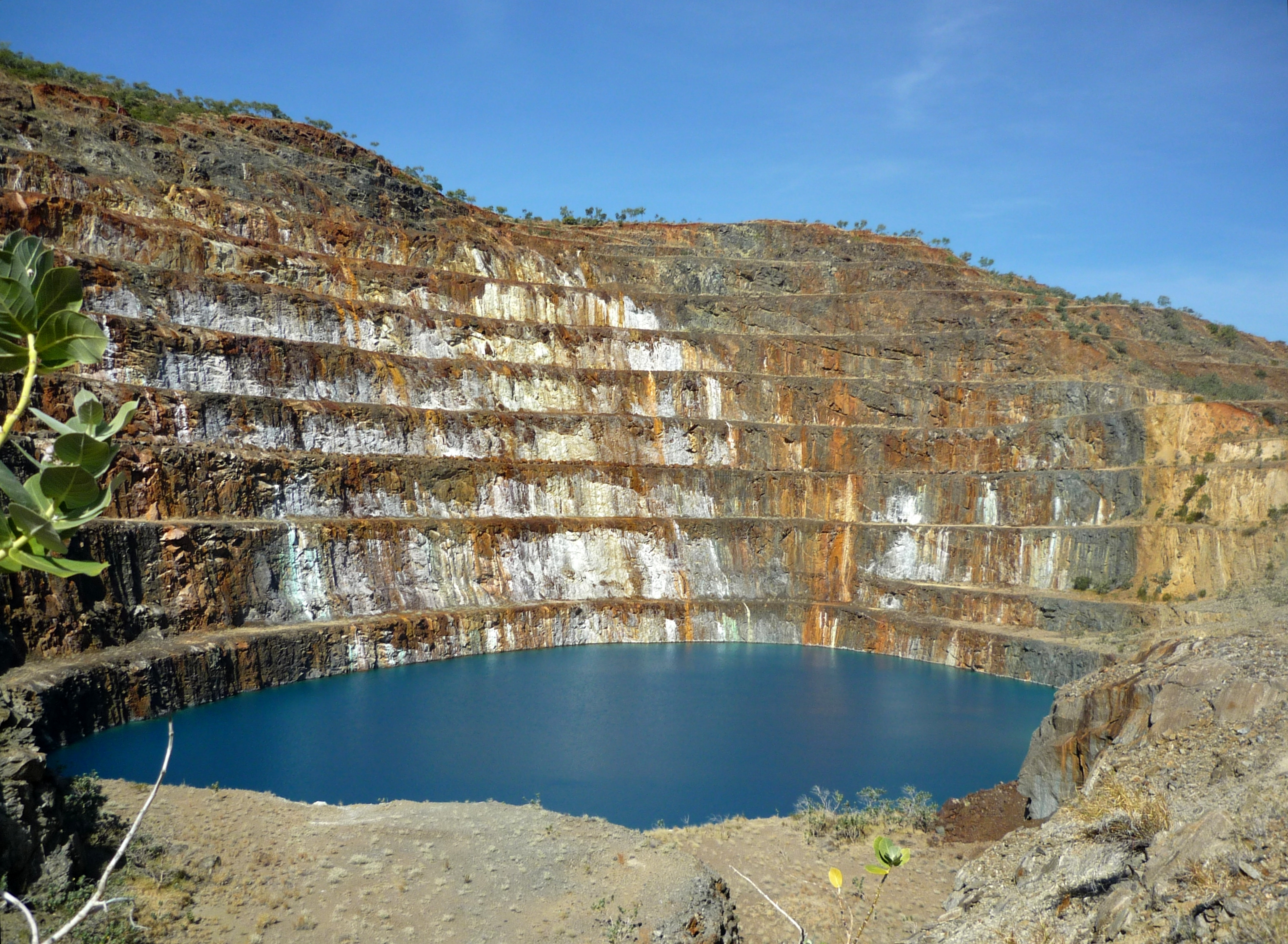 Mary Kathleen Uranium Mine